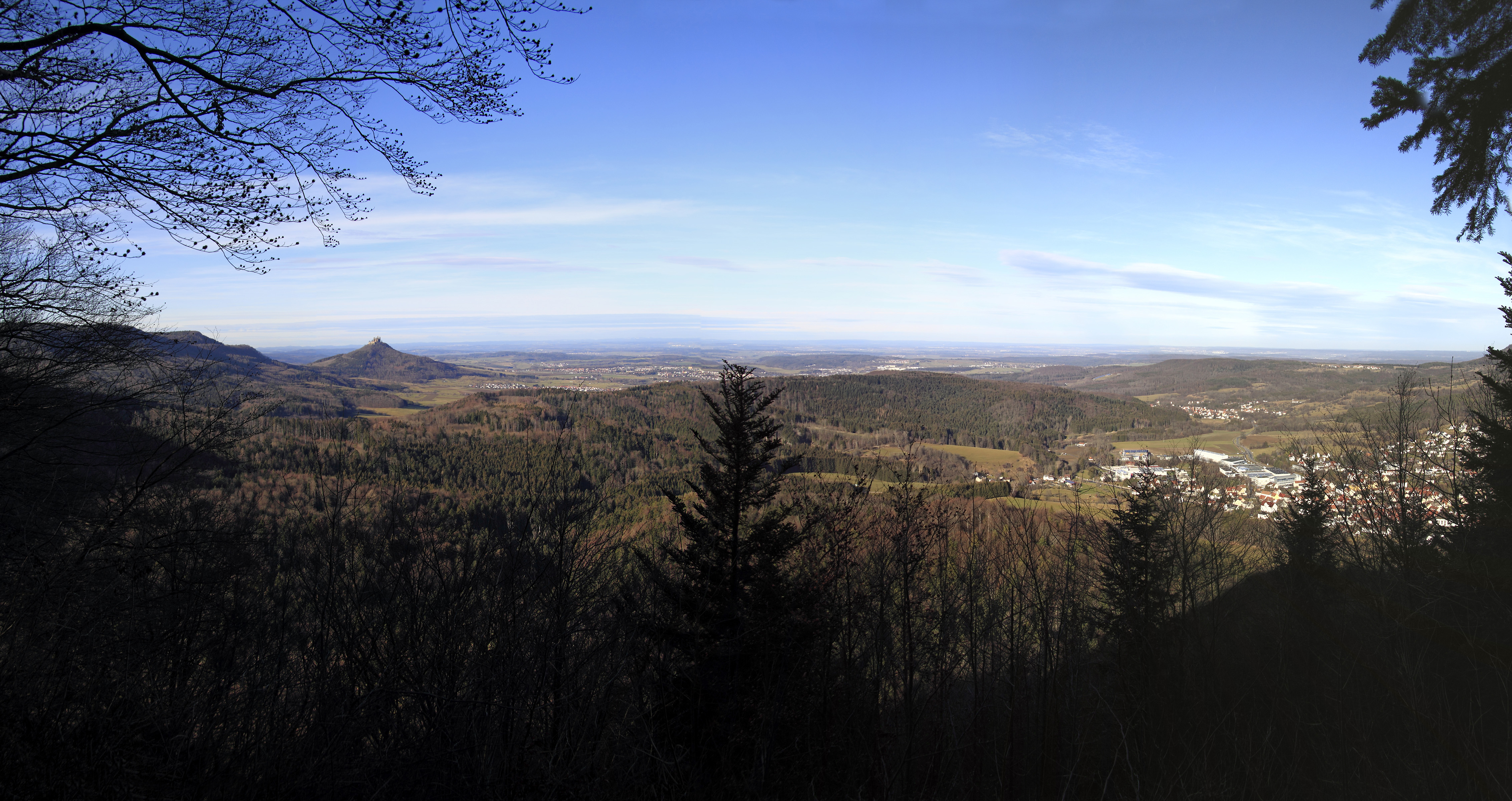 Himberg (854m), Swabian Alb mountains with Hohenzollern Castle, Zollernalbkreis Germany - panoramic view